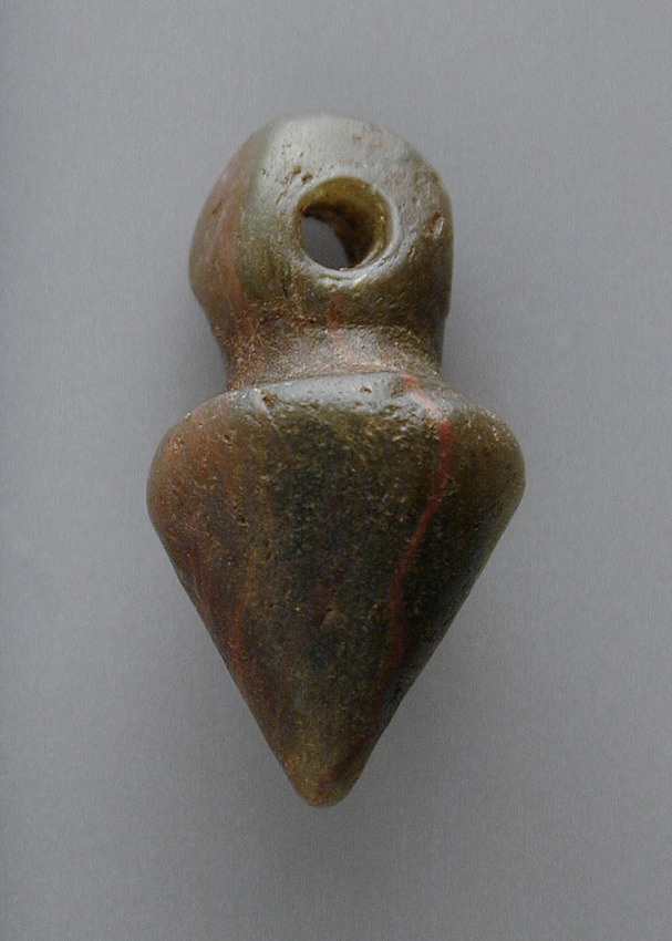 Egypt, New Kingdom - Roman Period (1569 BCE - 200 CE) Tools and Equipment; plumb bobs Hematite(?) Gift of Frank J. and Victoria K. Fertitta (M.80.198.185) Egyptian Art